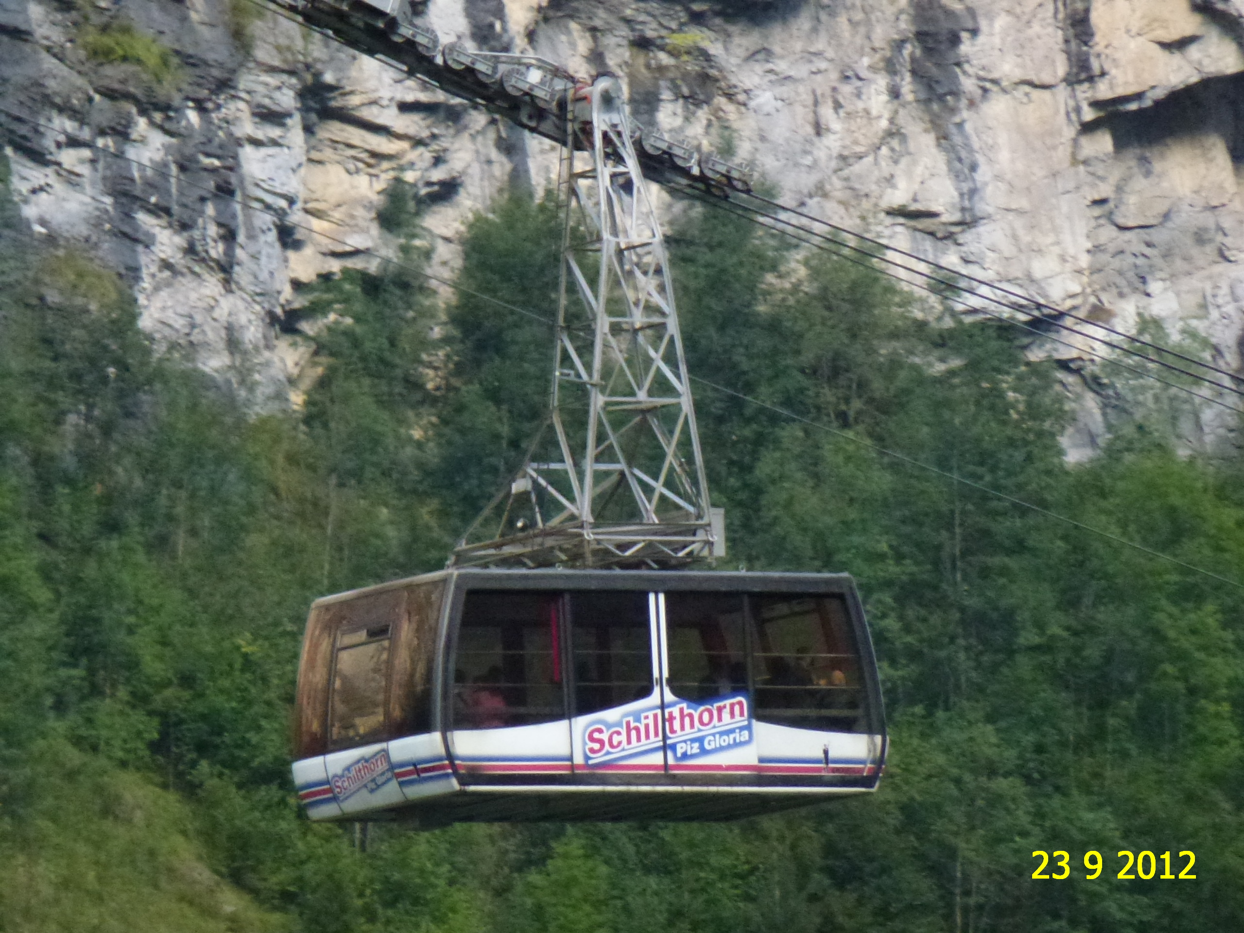 STECHELBERG VIEW FROM THE ROAD TO ALPENHOF IN 2012.